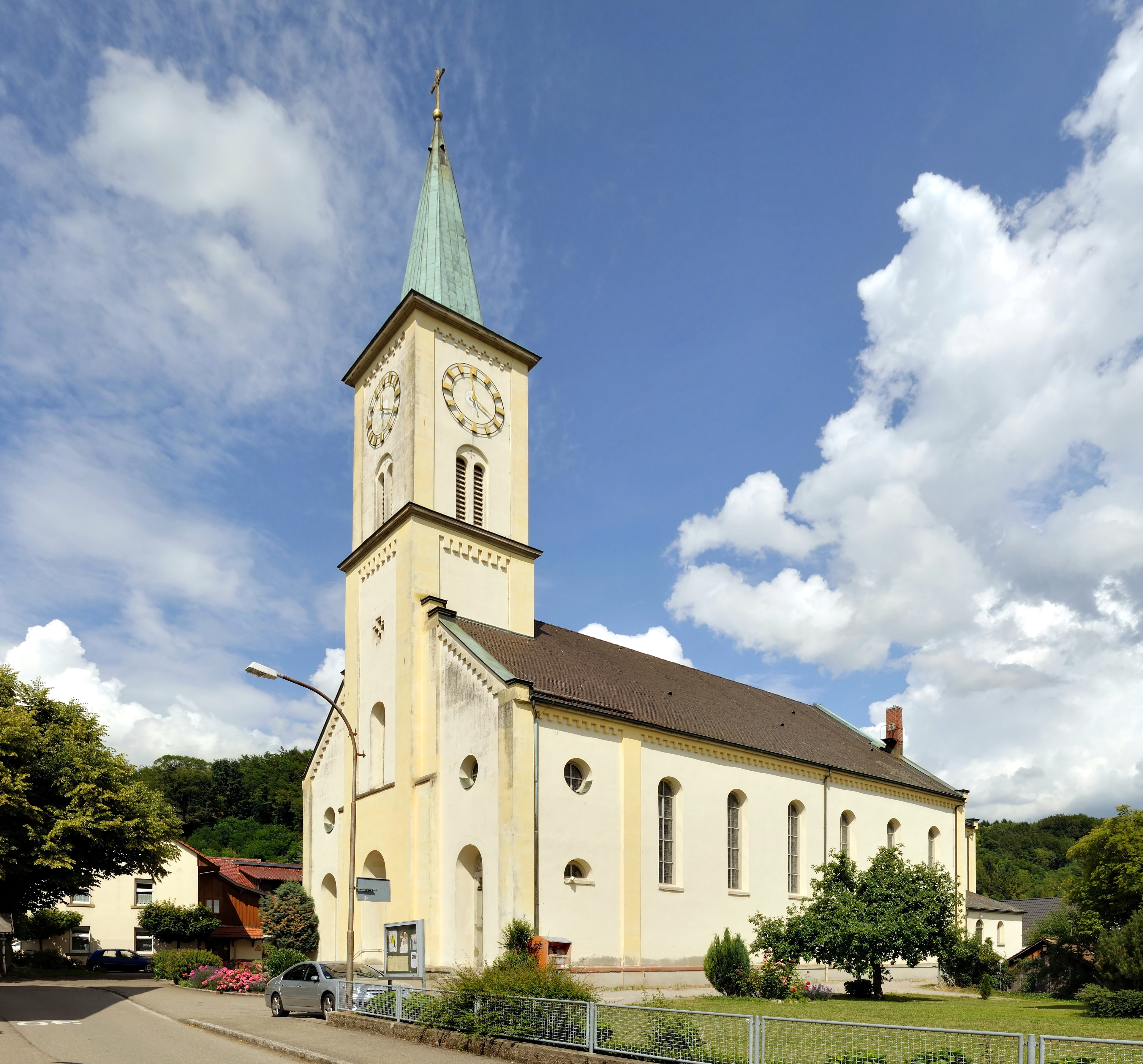 Schwörstadt: Catholic Church